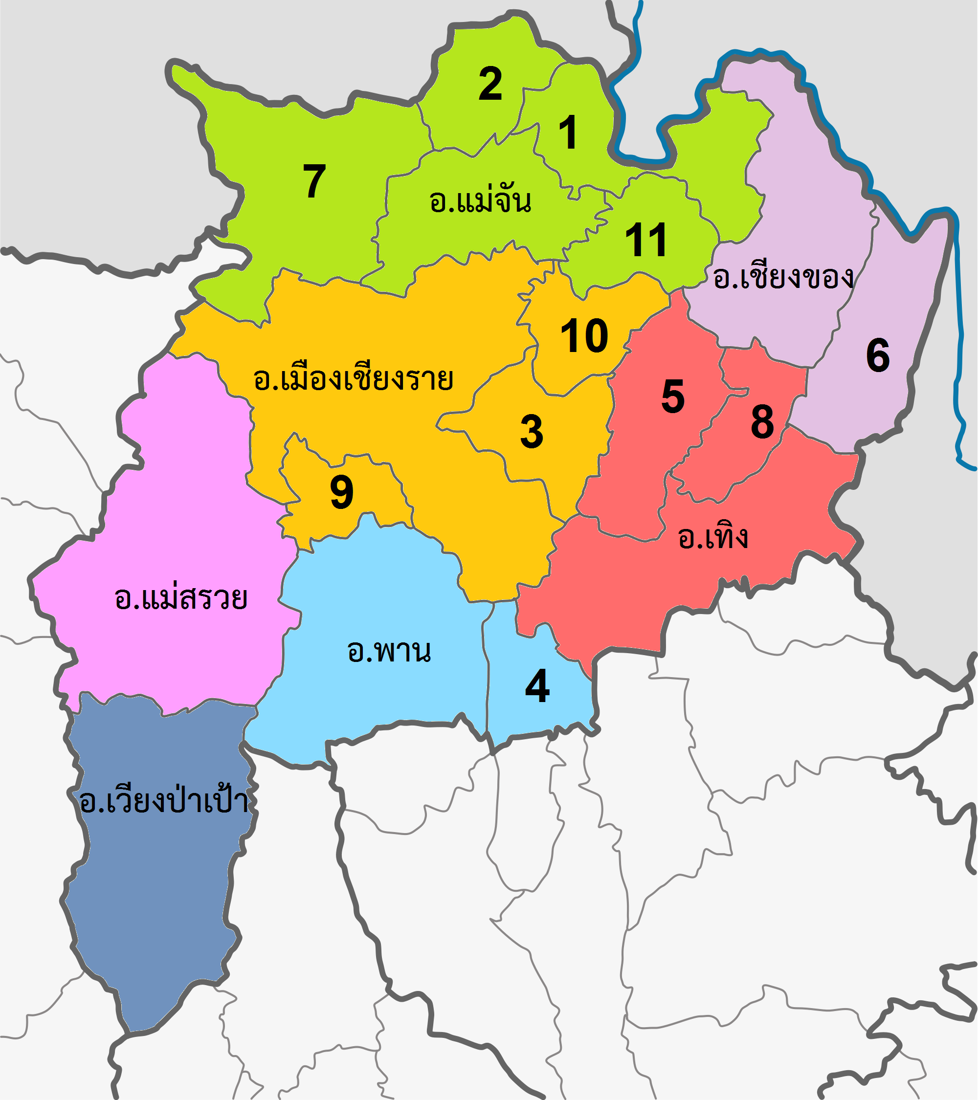 Chiang Rai-Main Amphoe Map